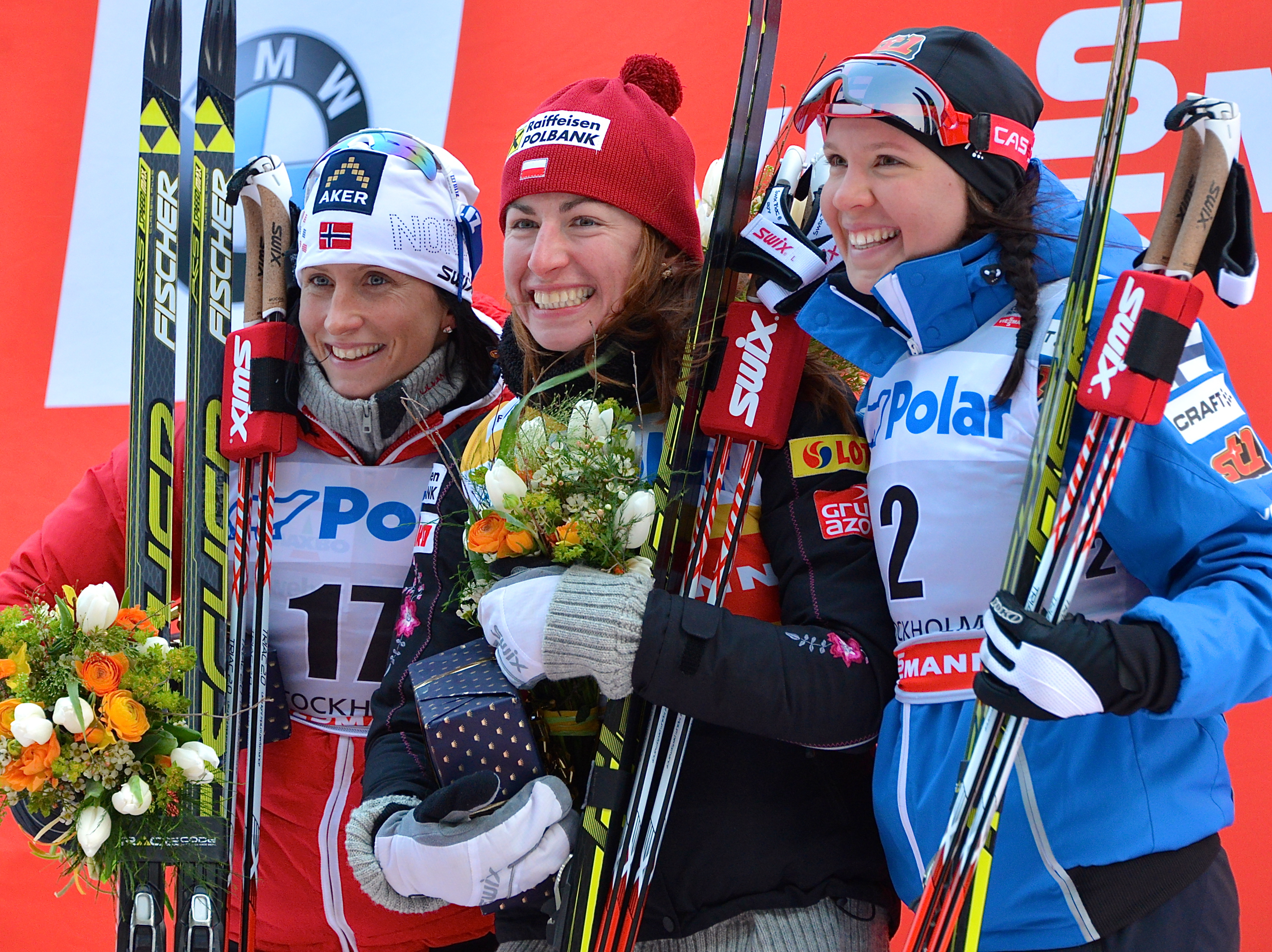 Marit Björgen, Justyna Kowalczyk and Kerttu Niskanen at the Royal Palace Sprint, part of the FIS World Cup 2012/2013, in Stockholm on March 20, 2013. Justyna Kowalczyk won the race.